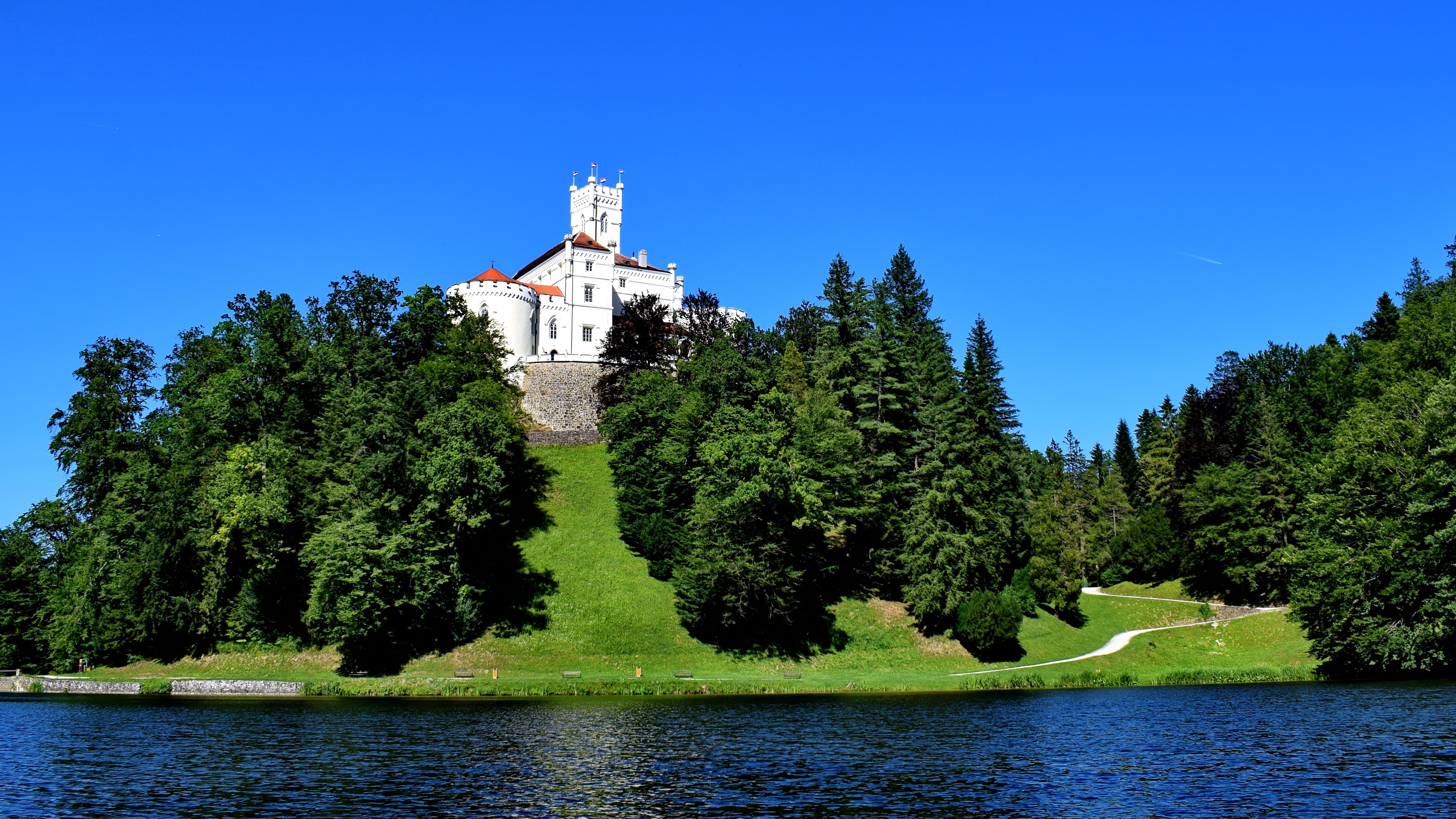 Trakoščan castle - lake view